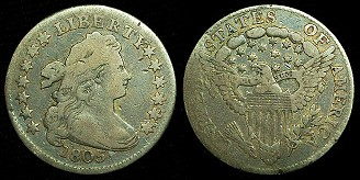 A Draped Bust dime.